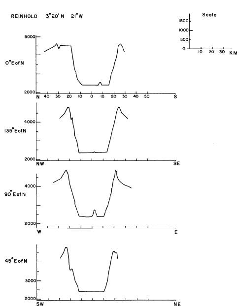 Reinhold crater cross section